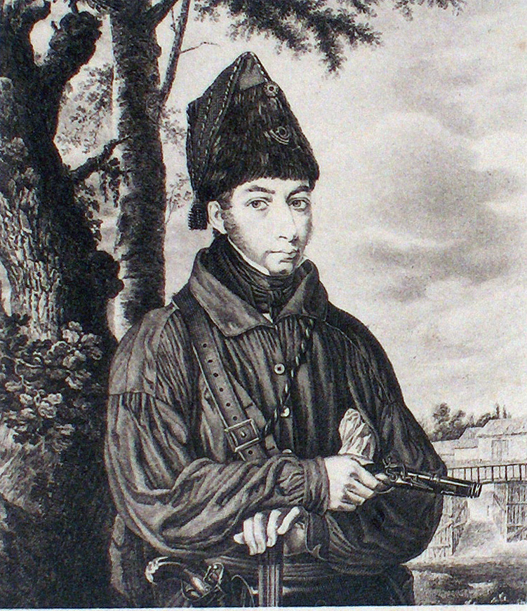 Portrait of count Louis Frédéric de Merode (1792-1830), a Belgian freedom fighter; drawing by anonymous